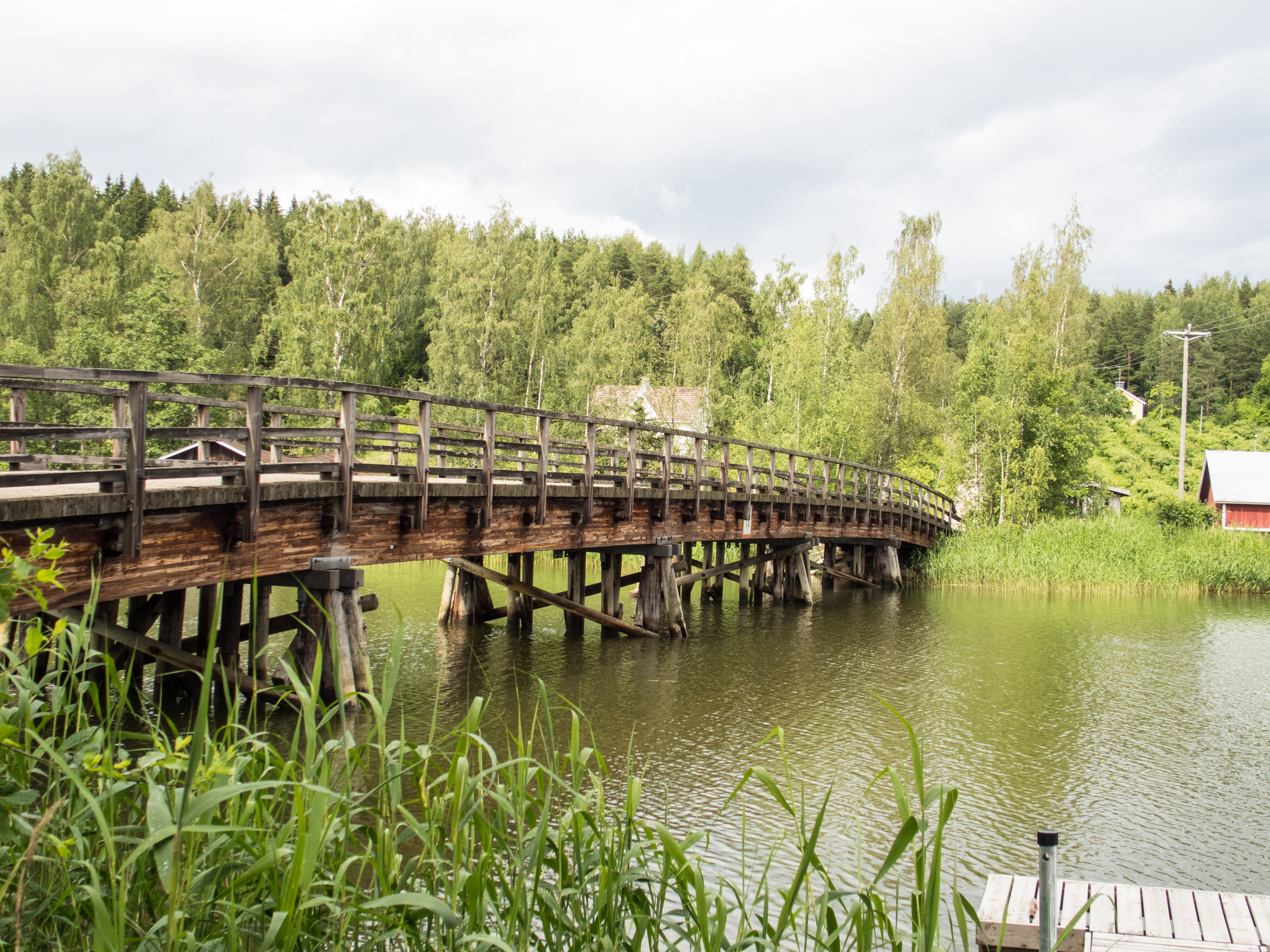 Bridge to Angelansaari island, located in the northeastern tip of the Kemiö island, belonging to the city of Salo, Finland.